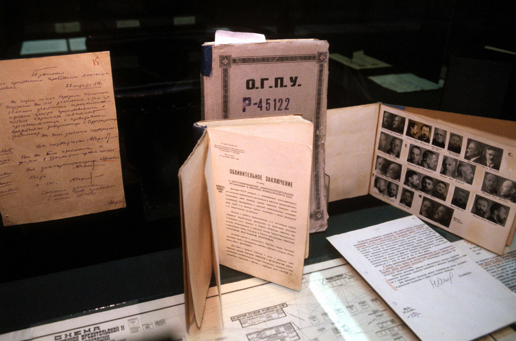 “1930s documents at exposition, Russian Oil and Gas: 19th-20th Centuries”. The exposition, Russian Oil and Gas: 19th-20th Centuries, was the first to exhibit archive materials from the Federal Security Service and the Memorial human rights society, which concern the fates of petroleum expert victims of Stalinist reprisals in the 1930s. On display is an indictment of October 15, 1930, on an alleged counter-revolutionary organization of spies and saboteurs in Soviet petroleum industry, and the record of an Alexander Serebrovsky interrogation of September 28, 1937.